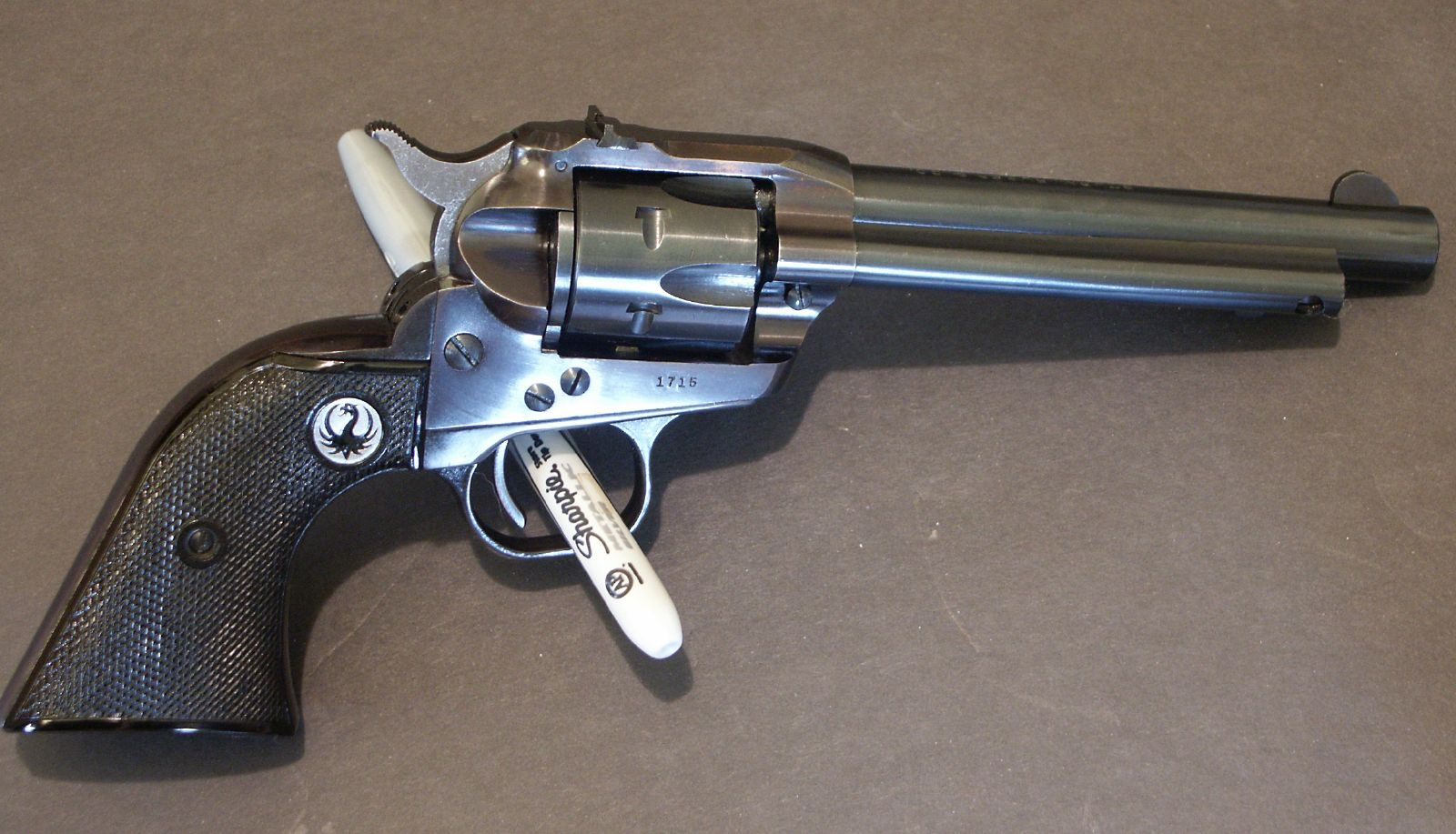 Single Six after Repair